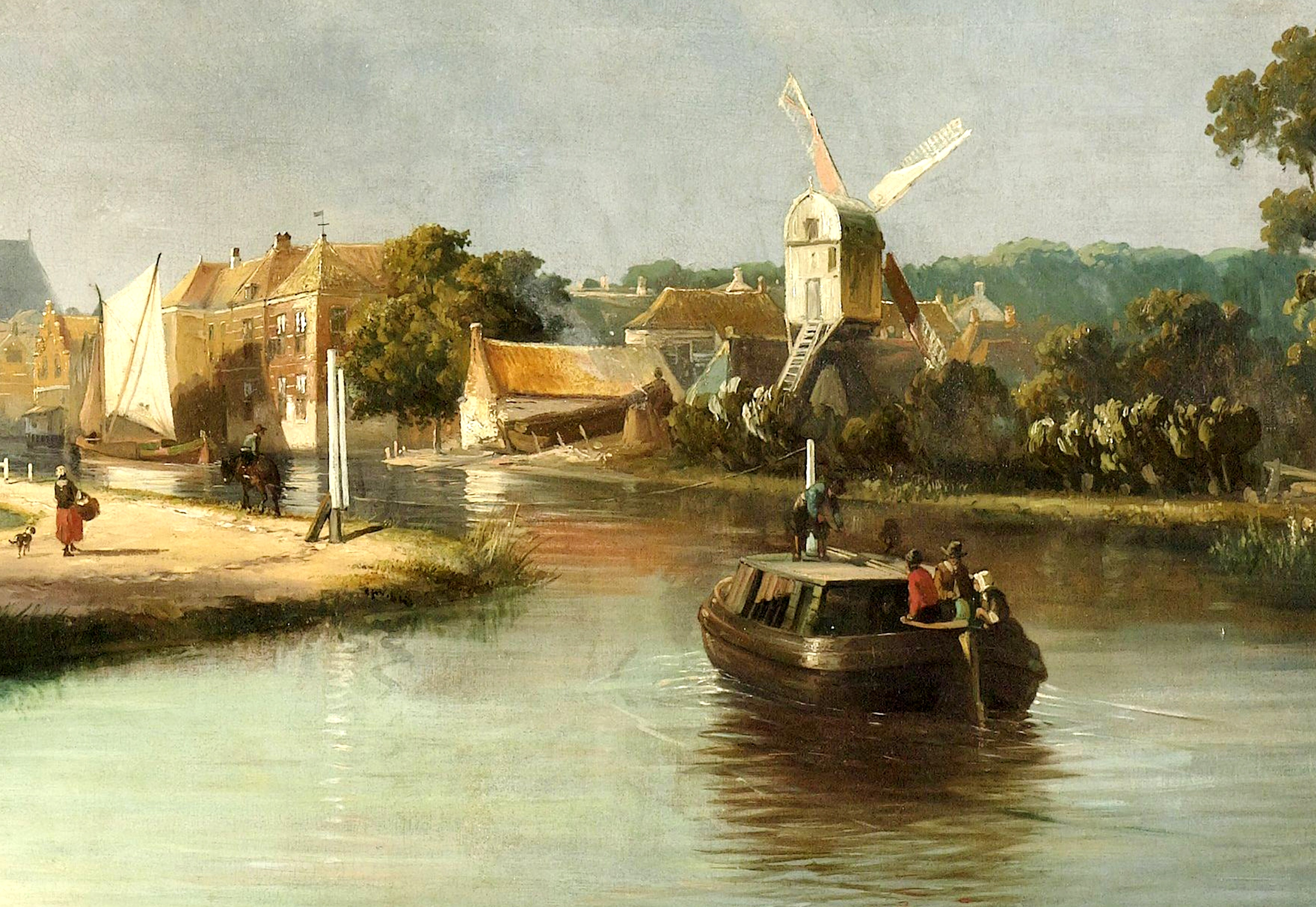 Trekschuit, Gezicht op Den Haag vanaf de Deltse vaart (detail)